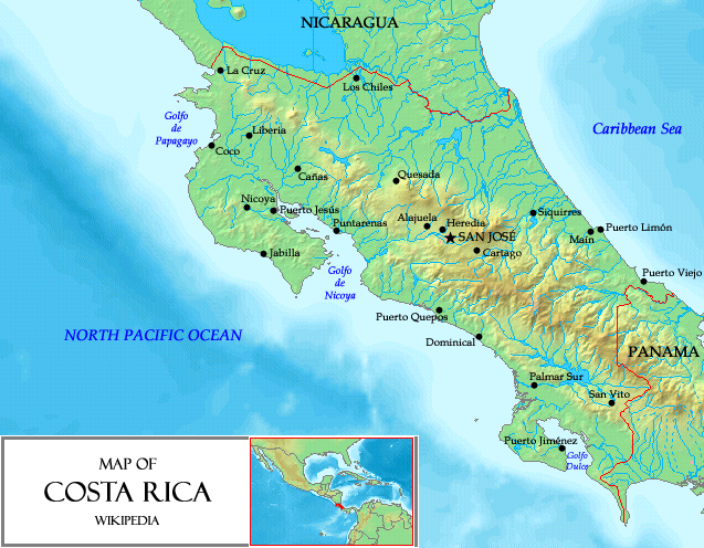 A map of Costa Rica